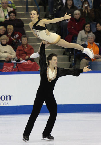 Meagan Duhamel & Craig Buntin perform a Group 5 Lift (Level 4) during their free skating program at the 2009 Canadian Figure Skating Championships.